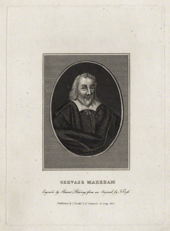 Line engraving of Gervase Markham by Burnet Reading, published by Thomas Rodd the Elder, after Thomas Cross